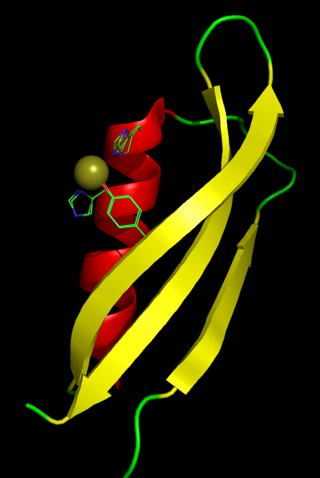 The metal-binding domain of amyloid precursor protein (APP). The olive-colored sphere is a bound copper ion. The histidine and tyrosine sidechains that coordinate the metal ion are shown in the Cu(I), Cu(II), and unbound conformations.